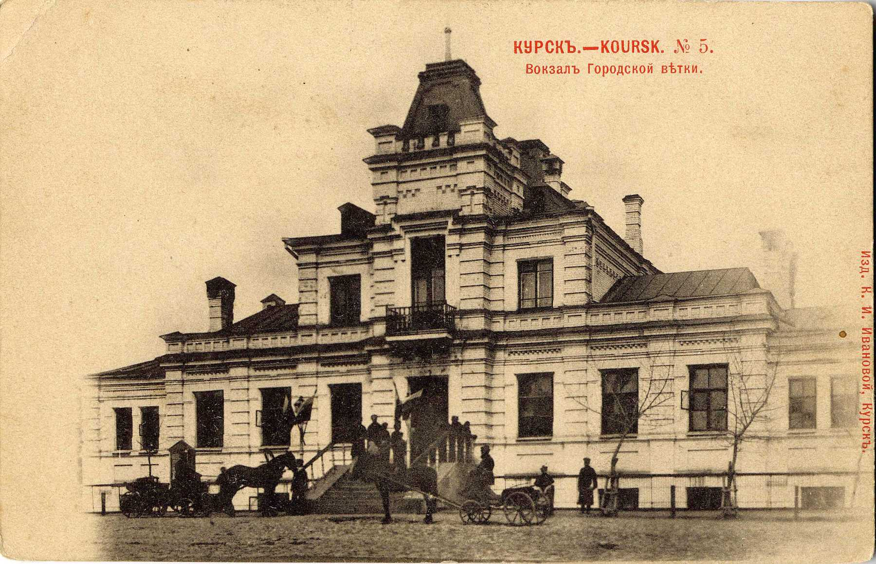 Kursk City Train Station (Kursk II) in the beginning of the XX century, before expanding attic storey.